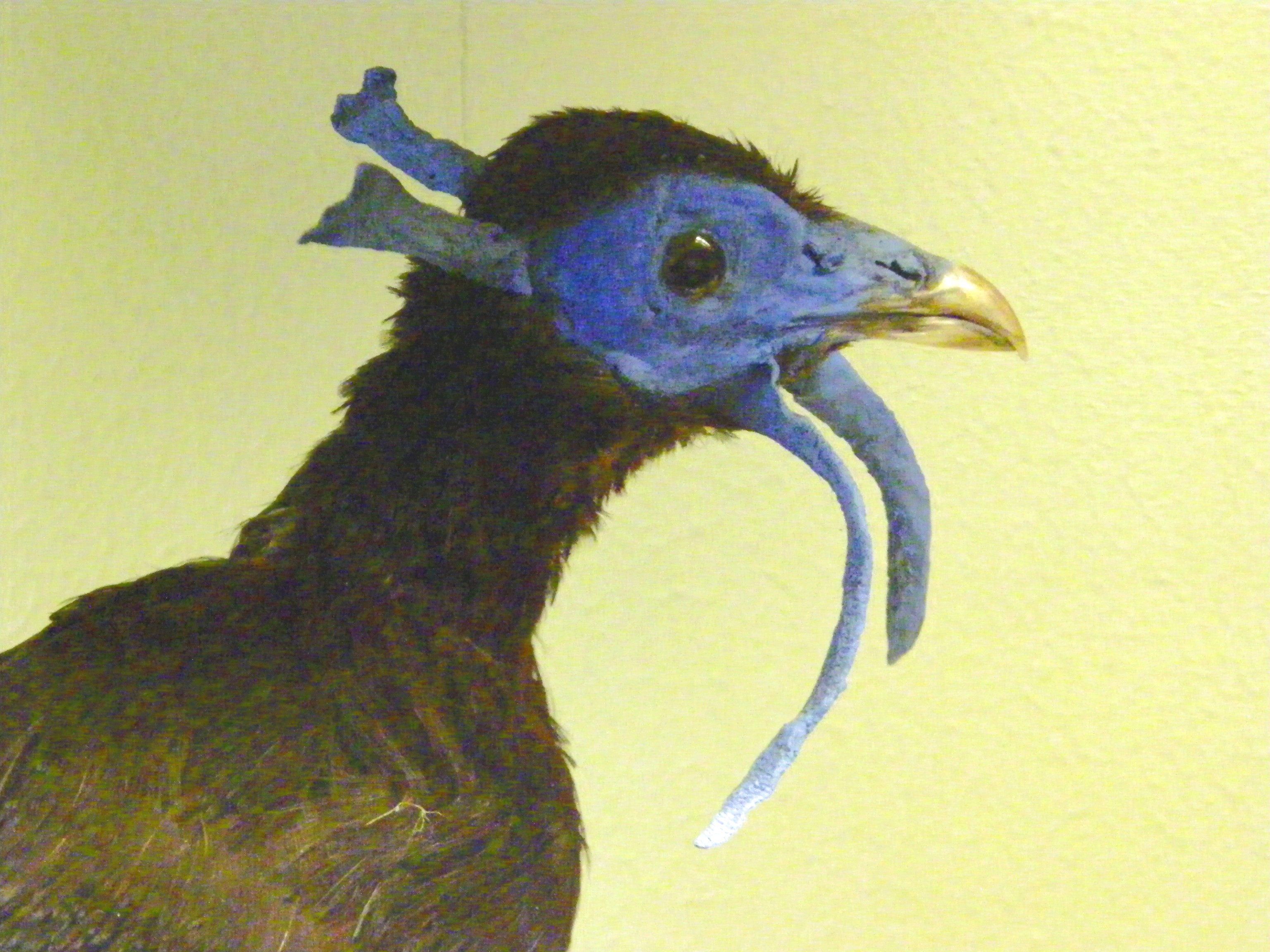 A stuffed Bulwer's Pheasant (Lophura bulweri), at the Naturhistorisches Museum Wien, Vienna, Austria.